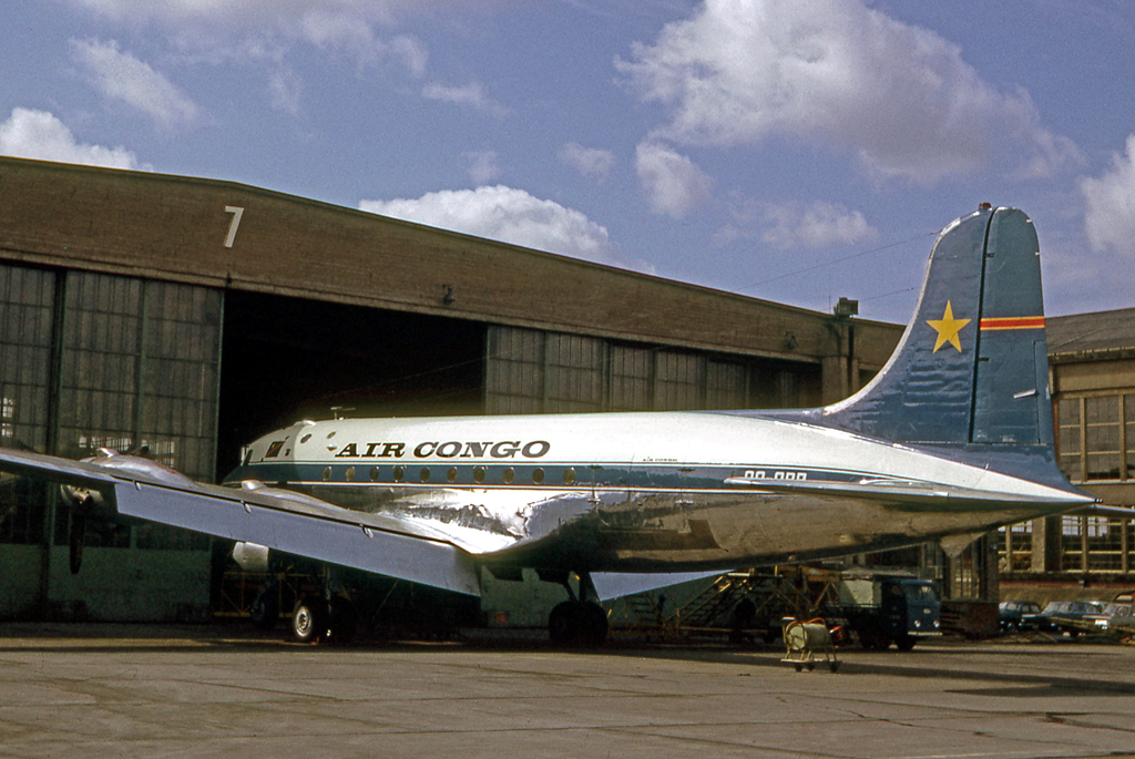 Douglas DC-4 Skymaster 9Q-CBR of Air Congo at Brussels Airport in 1965